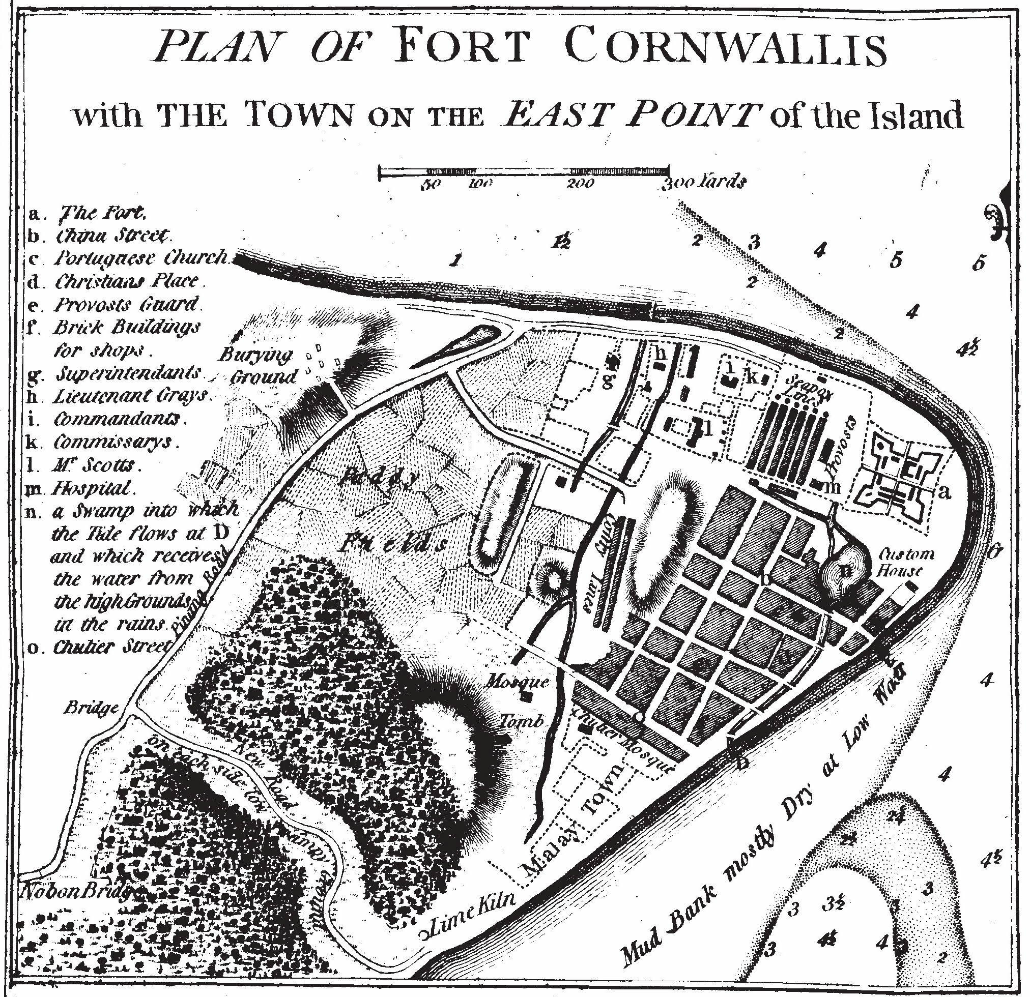 The Map of Early Penang Showing the Malay Town on the South of the Town Center by Popham 1799